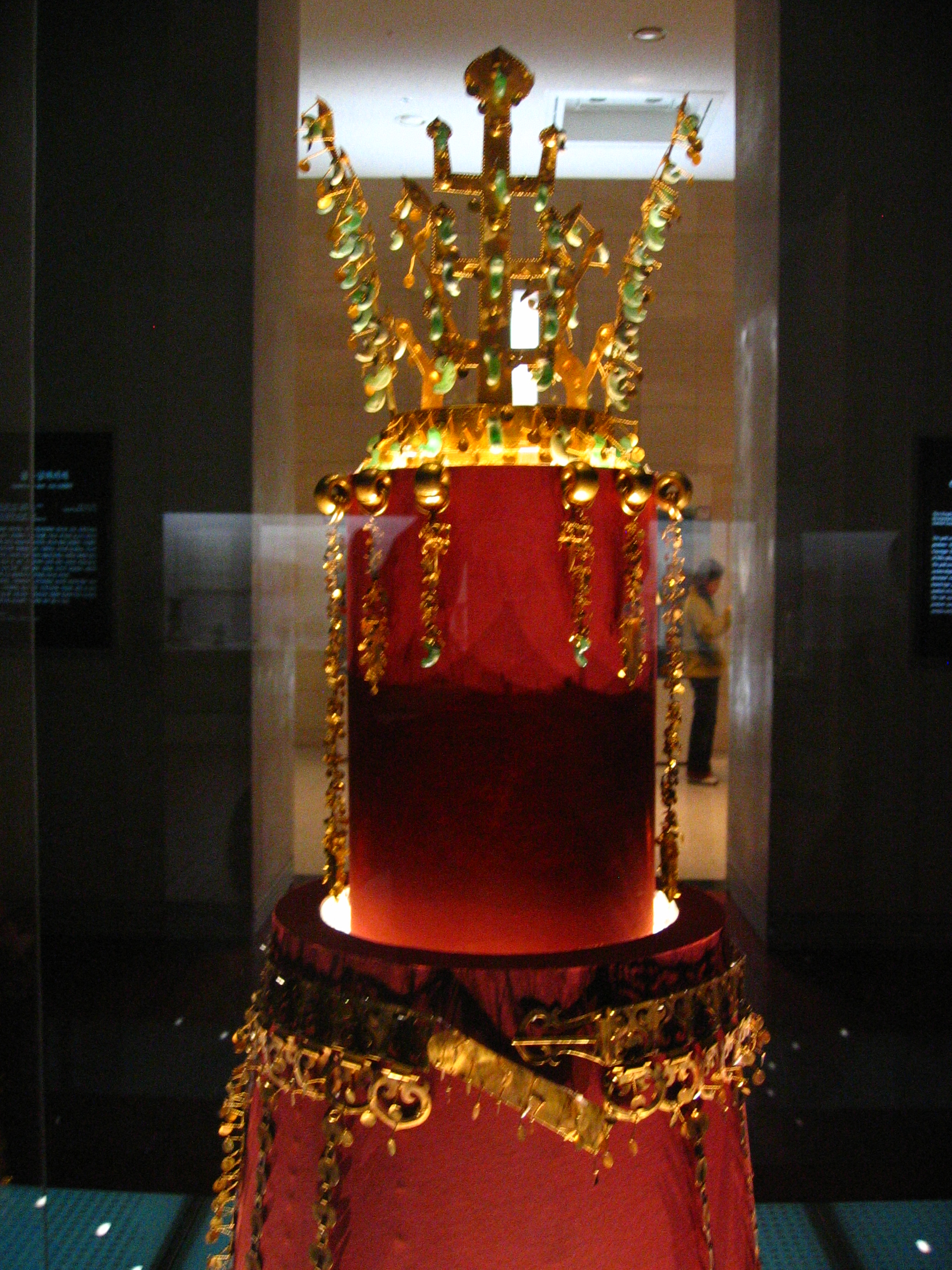 Korean crown and belt from Silla era.